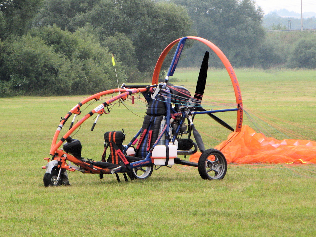 5th European Paramotor Championships 2008, Poland, Łomża, 2nd - 9th August 2008